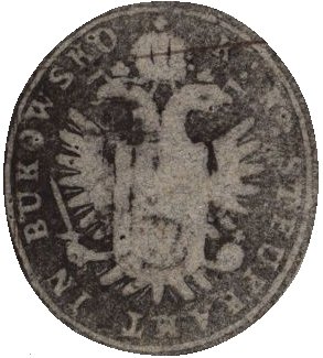 Office stemp of Steuerbezirk Bukowsko. 1852.